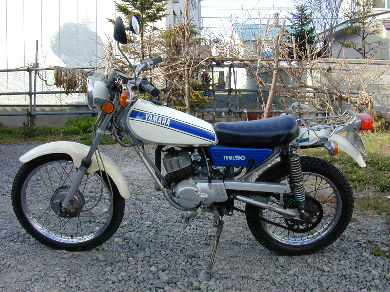 YAMAHA TY50